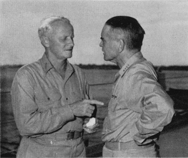 US Admirals Chester Nimitz and William Halsey meet in early 1943 to plan Allied war operations against the Japanese, including the upcoming Operation Toenails invasion of the New Georgia Island group in the Solomon Islands.